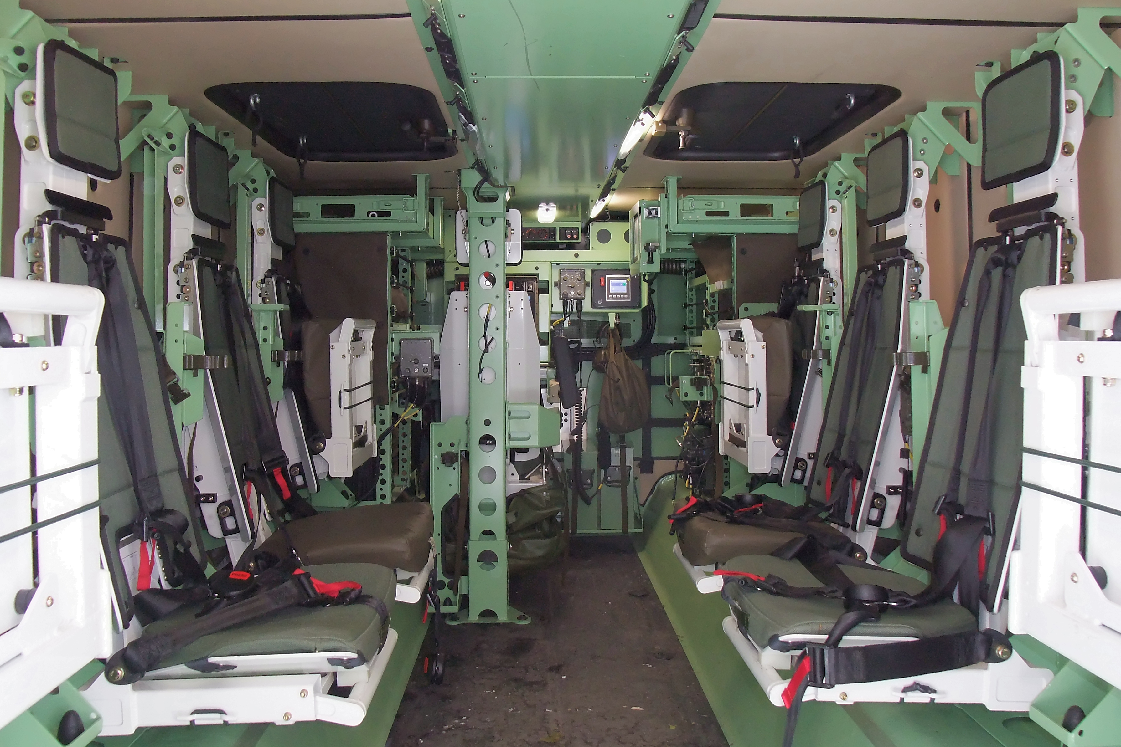 Inside the Duro IIIP troop carrier as heavily armored 6x6 version of Duro. Andermatt, Switzerland, Nov 26, 2013.